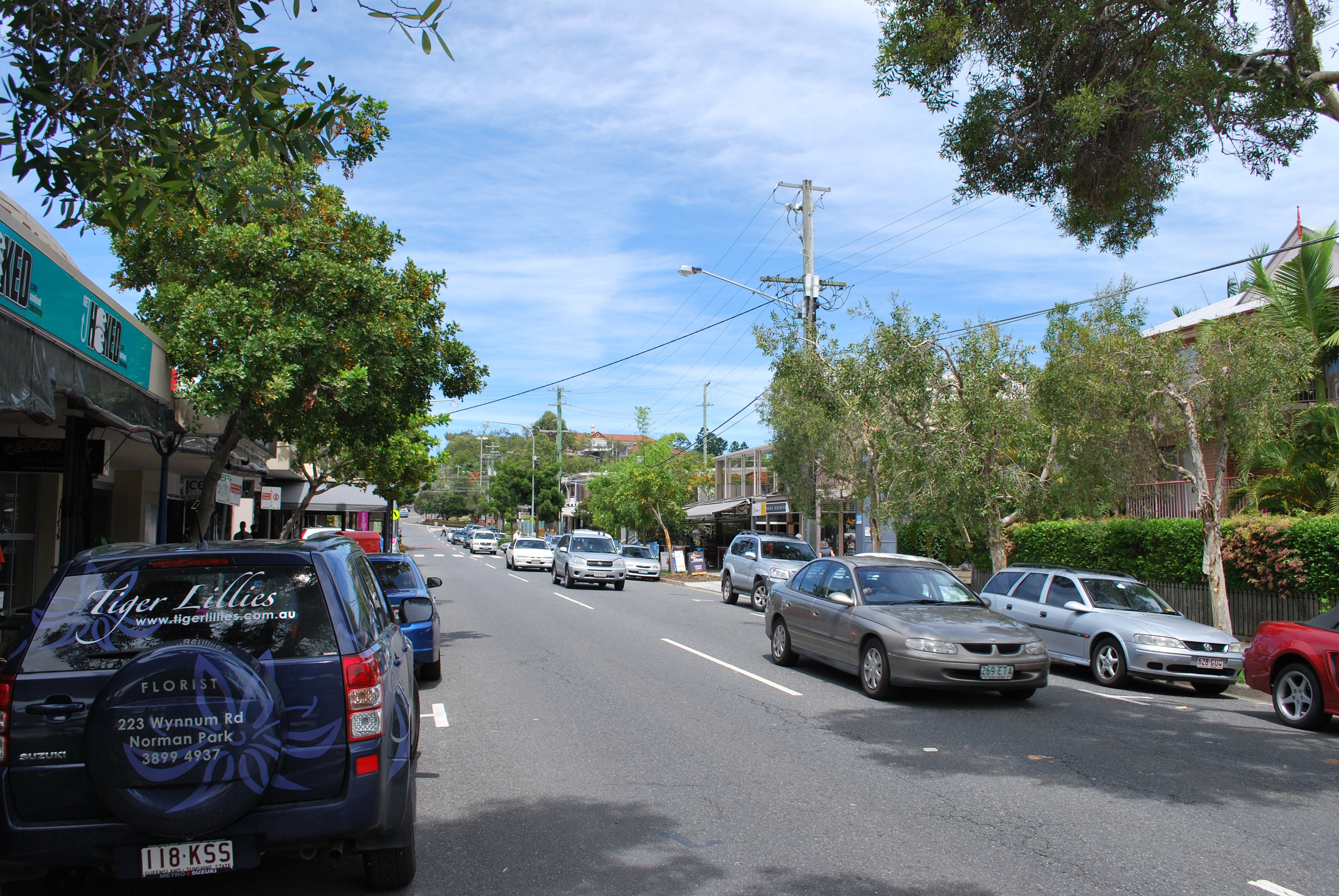 Oxford St in Bulimba, Queensland